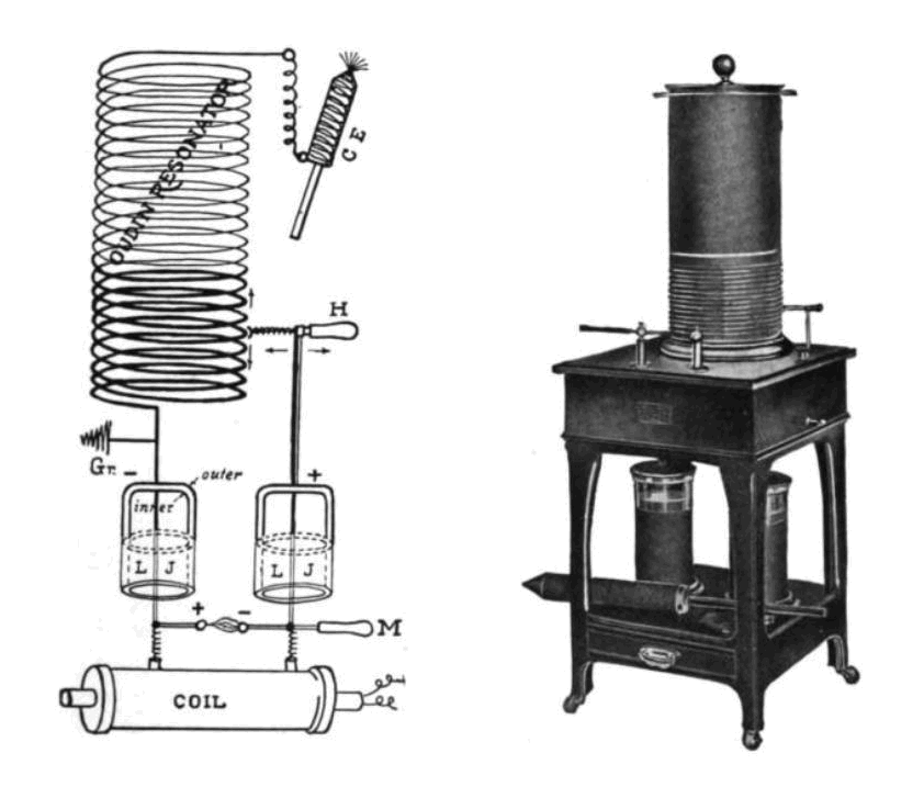 Photo of an Oudin coil used for medical 'electrotherapy', and it's circuit diagram, from around 1907. The Oudin coil was a high voltage resonant transformer similar to a Tesla coil, invented by French physician Paul Marie Oudin around 1899. The coil was around 50 cm high. This particular apparatus also had a small handheld Tesla coil (CE, seen lying on the bottom shelf of the apparatus) attached to the top high voltage terminal, for applying to the patient. The diagram's caption: "Diagram of the Oudin resonator. The Tesla coil is omitted. The current from the induction coil is connected with the inner tinfoil of the Leyden jars. The inner coat of one Leyden jar is in connection with the resonator and is also grounded. The outer coat of the other Leyden jar is connected with the handle, H, which, by a sliding movement in either the horizontal or vertical direction, decreases or increases the amount of winding of the resonator. M is the spark gap, for regulating the amount of current." The picture's caption: "The Oudin resonator and Tesla coil, with electrode. (Biddle)